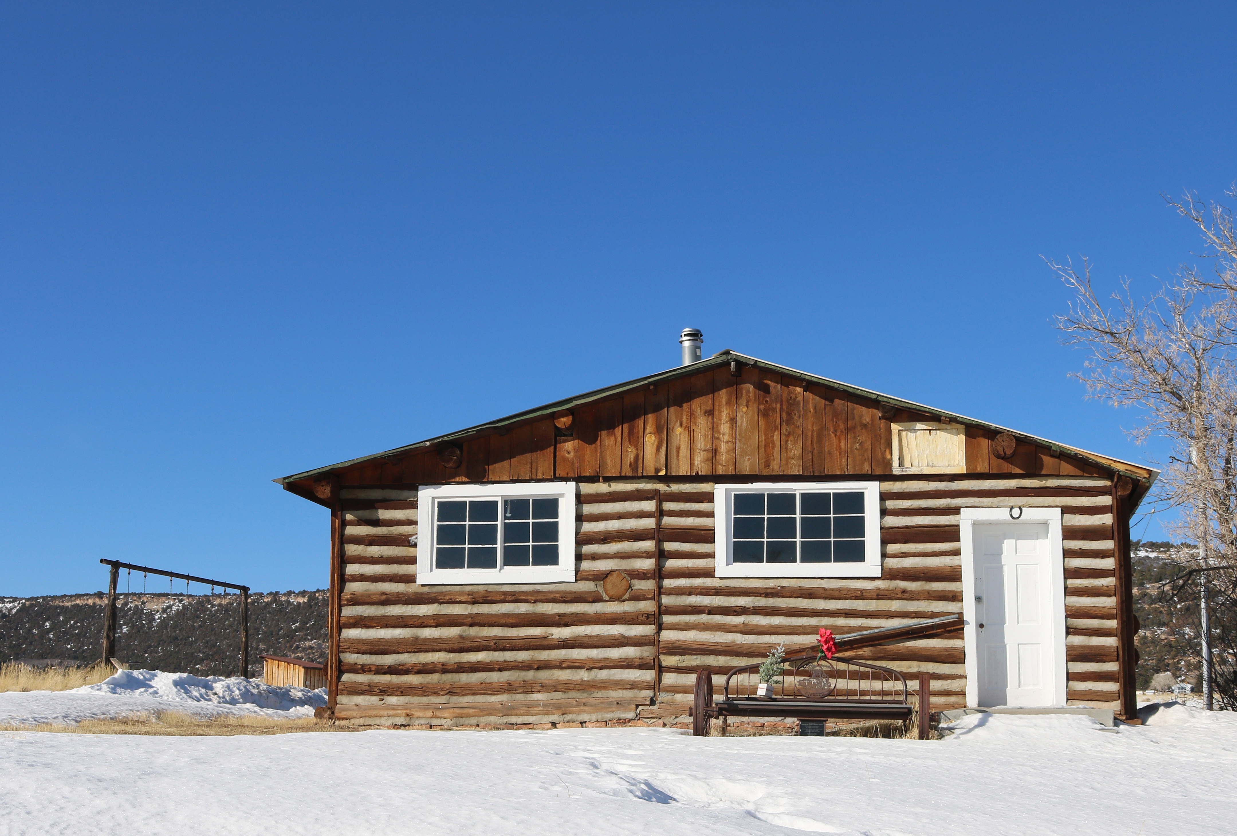 The Coates Creek Schoolhouse, located on DS Road on the far west side of Template:Glade Park, Colorado. The school is listed on the National Register of Historic Places.